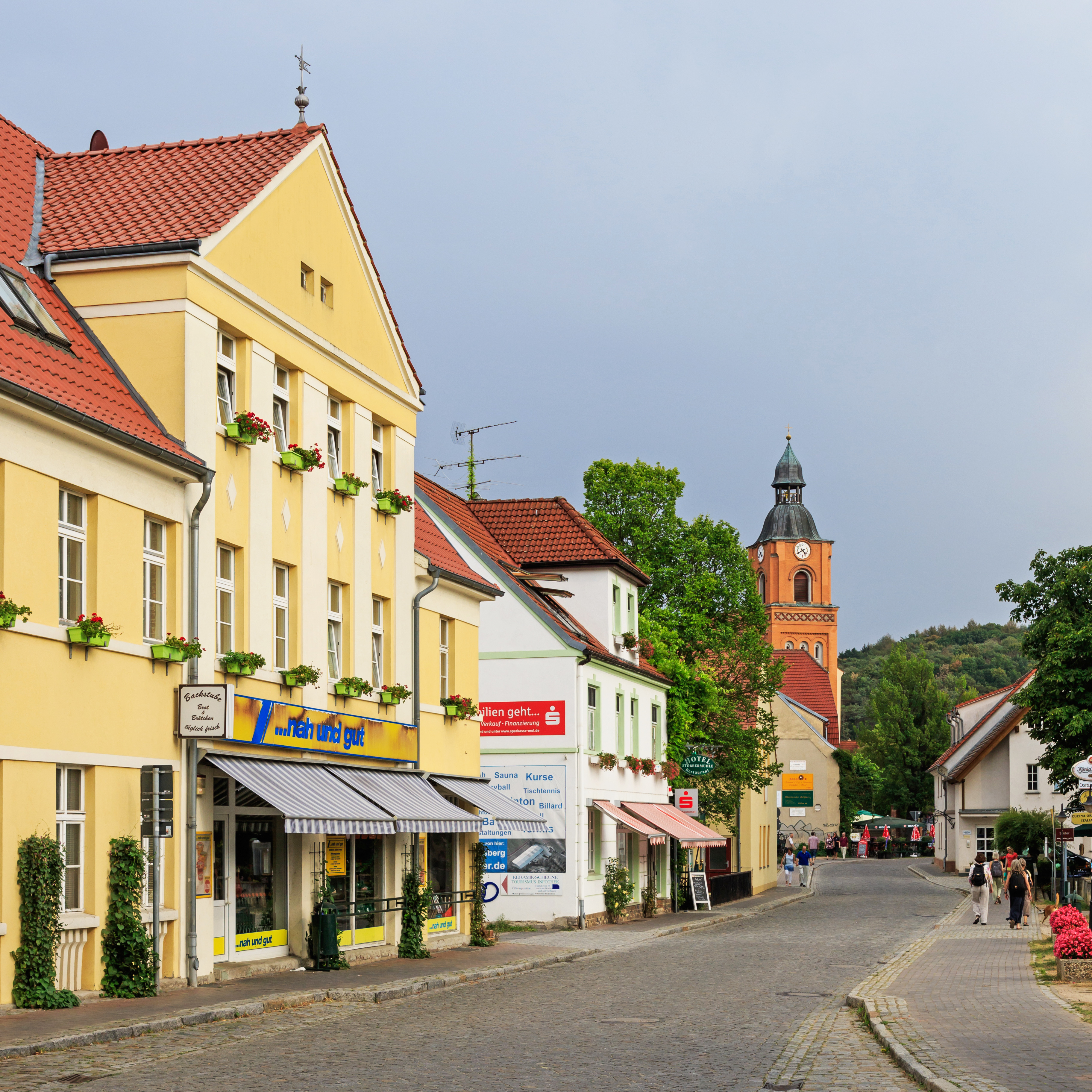 Wriezener Straße (with the Town church in the background) in Buckow (Märkische Schweiz), Brandenburg, Germany